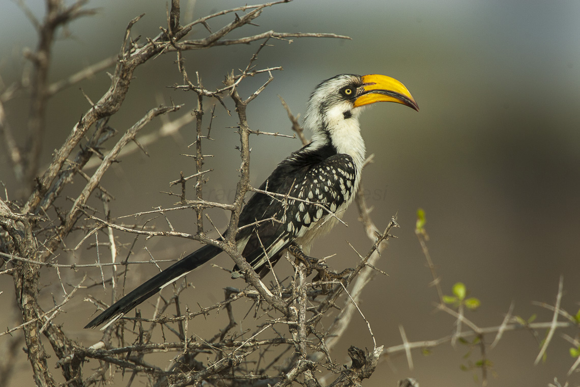 Eastern Yellow-billed Hornbill - Shaba Kenya 06_7380